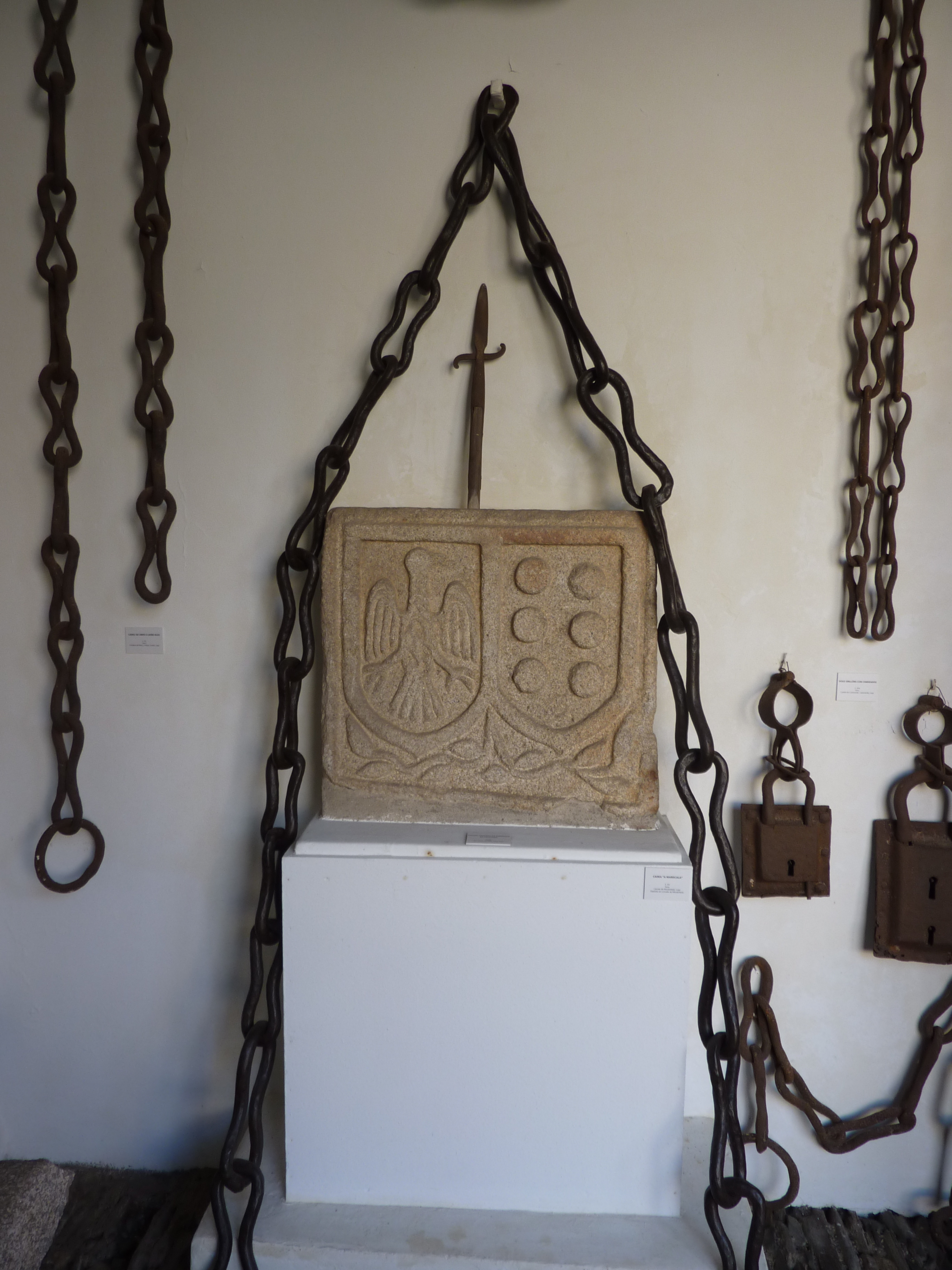 A Mariscala, the chain which kept a prisoner Marshal Pardo de Cela, before being executed in 1483.